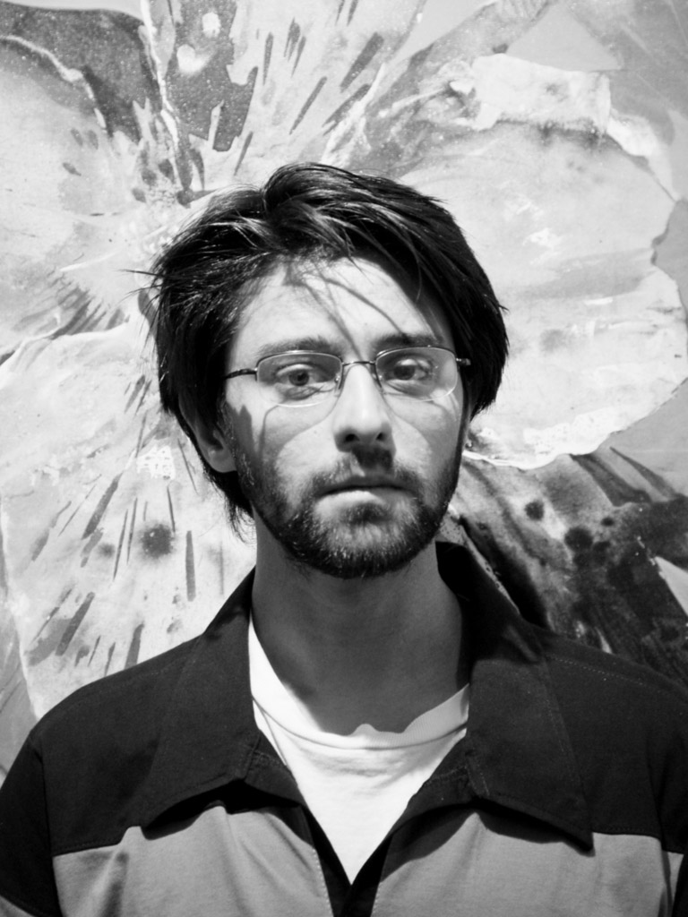 Portrait of Amir Ali Ghasemi.